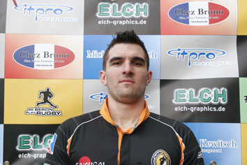 Profile photo of German rugby union player Benjamin Ulrich